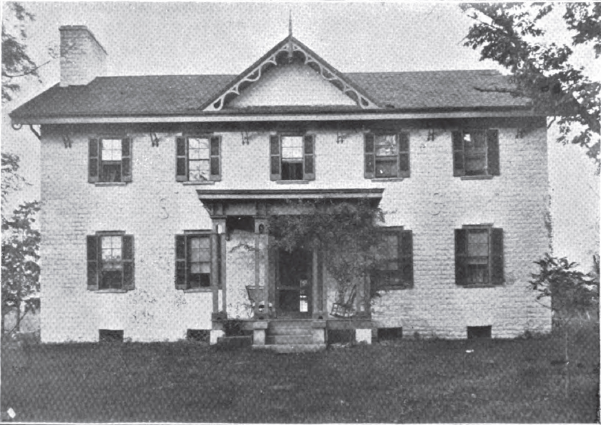 Home of Kentucky Governor James Garrard